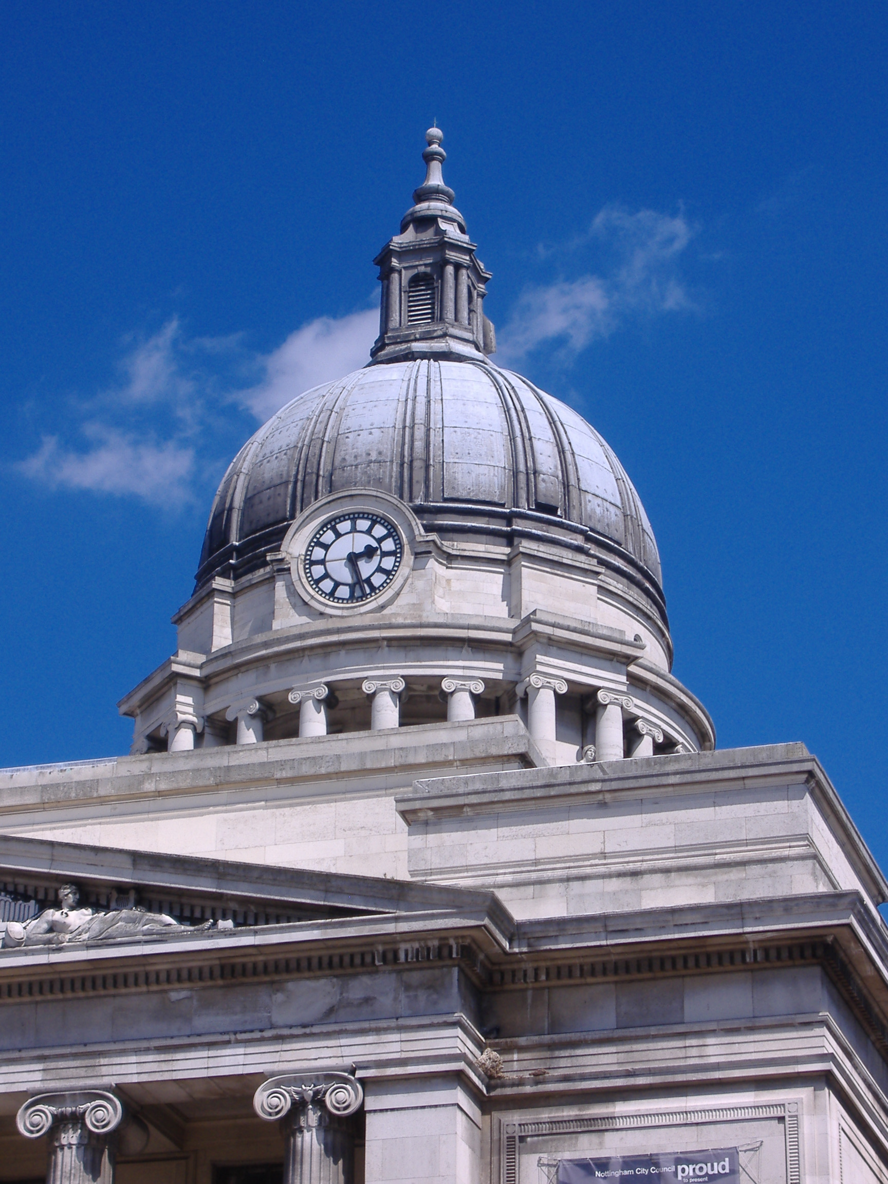 Nottingham Council House on Market Square.